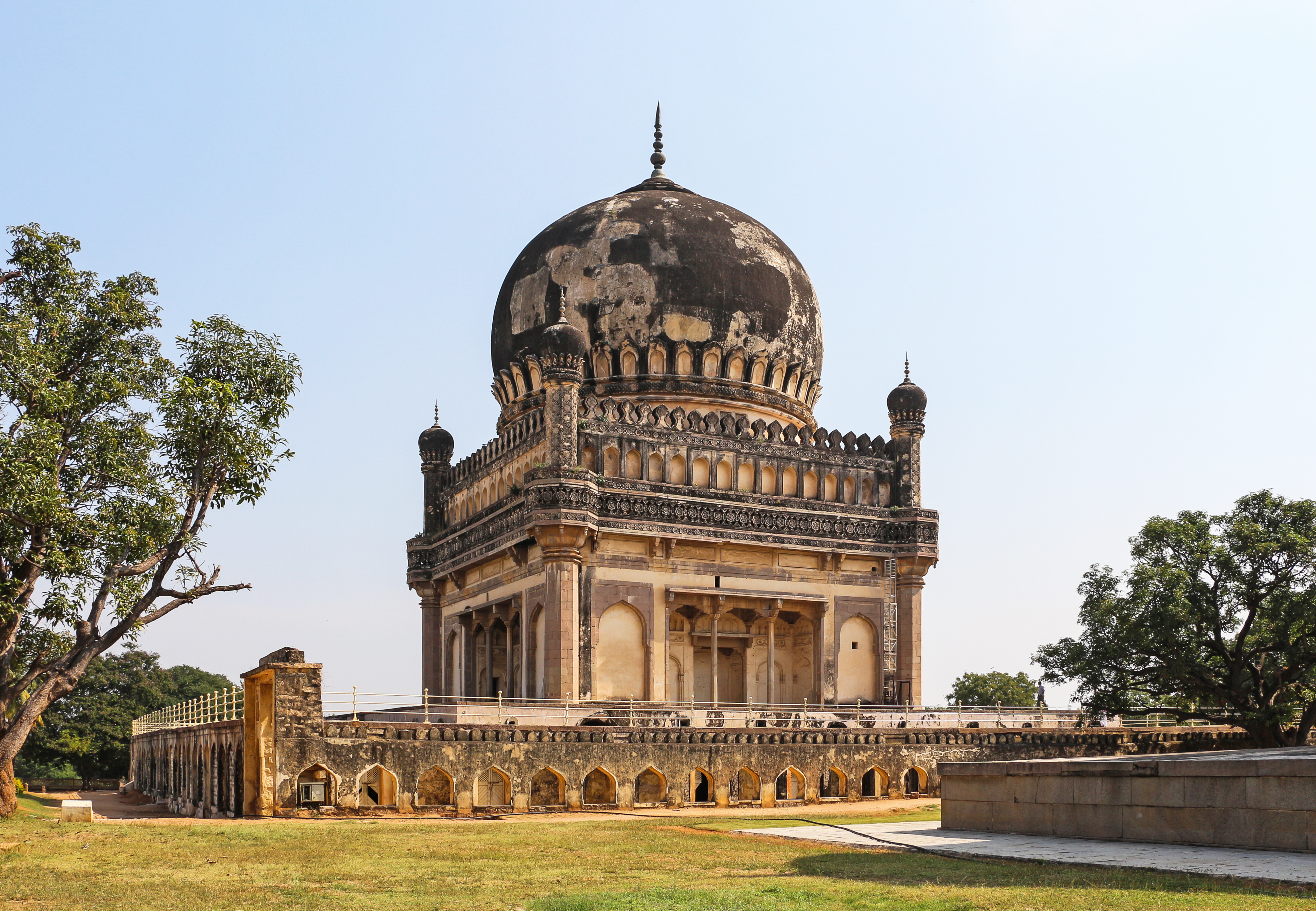 Tomb of Muhammad Quli Qutb Shah, Hyderabad, India